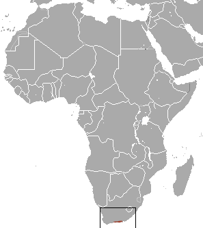 Duthie's Golden Mole (Chlorotalpa duthieae) range